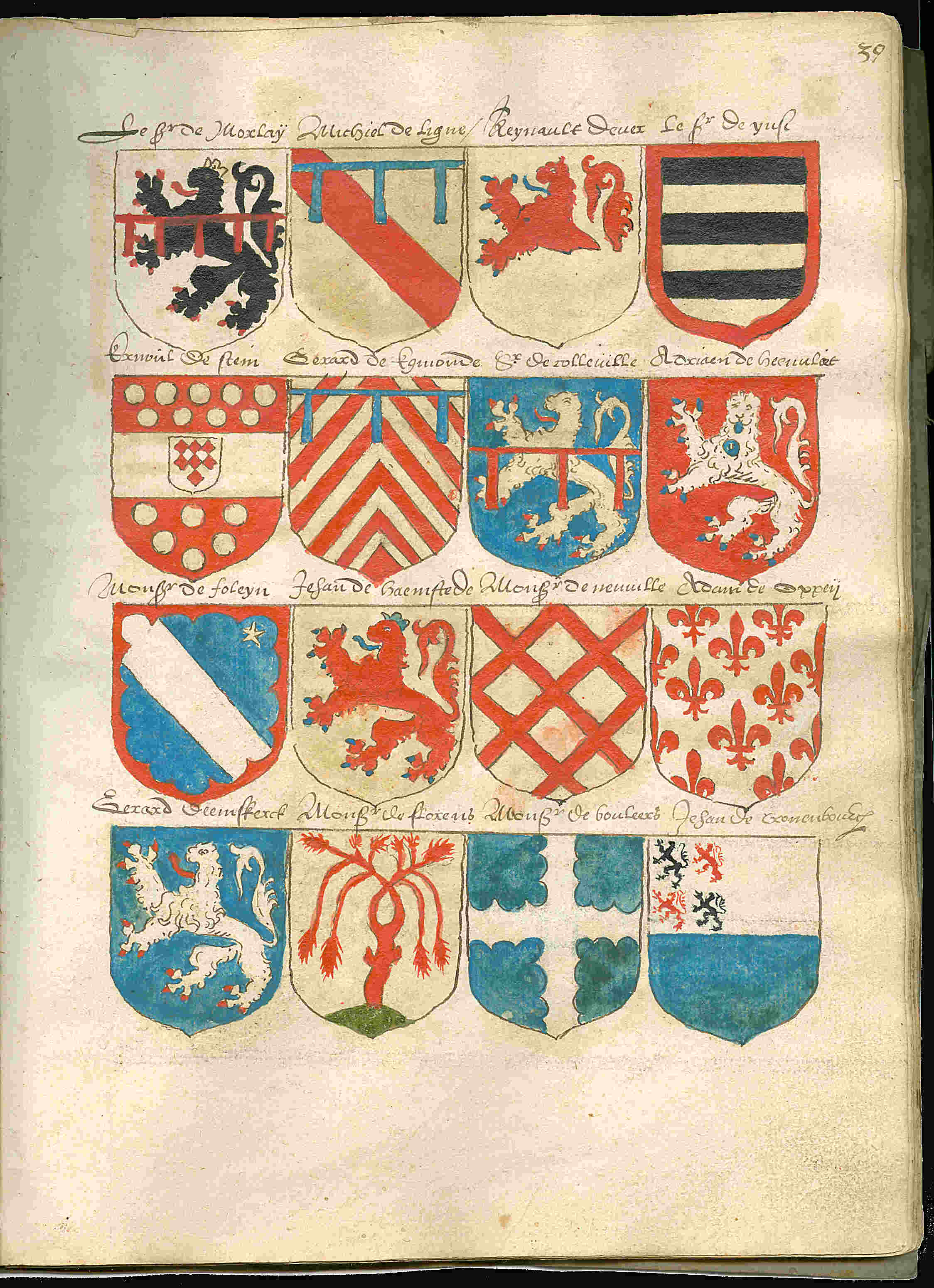 Page 39 from a copy of the Beyeren armorial / Wapenboek Beyeren from ca. 1600. The original Beyeren armorial from 1405 can be viewed at the website of the KB